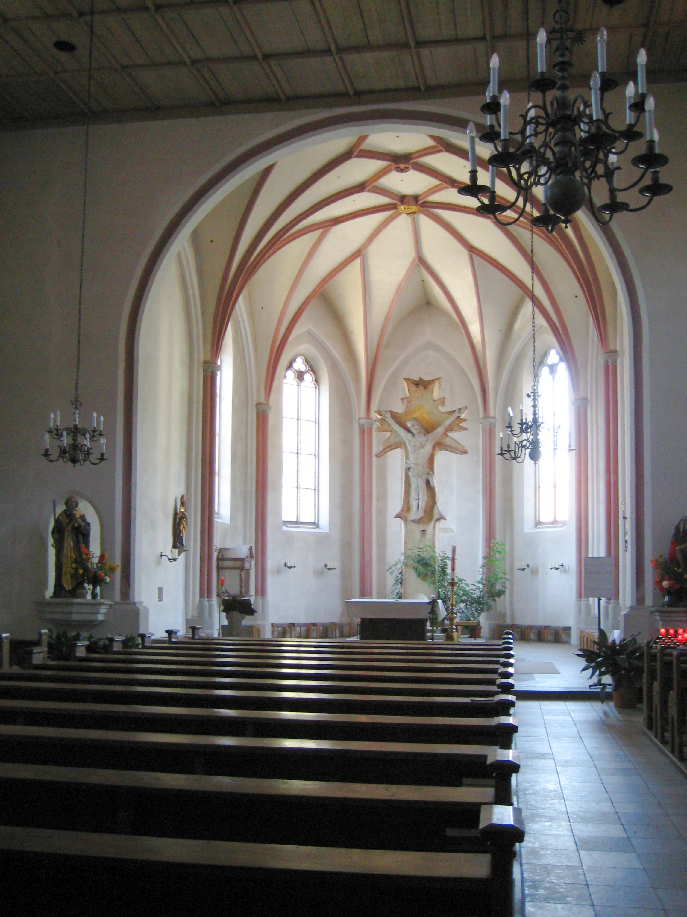 Interior of St. Severin, Passau